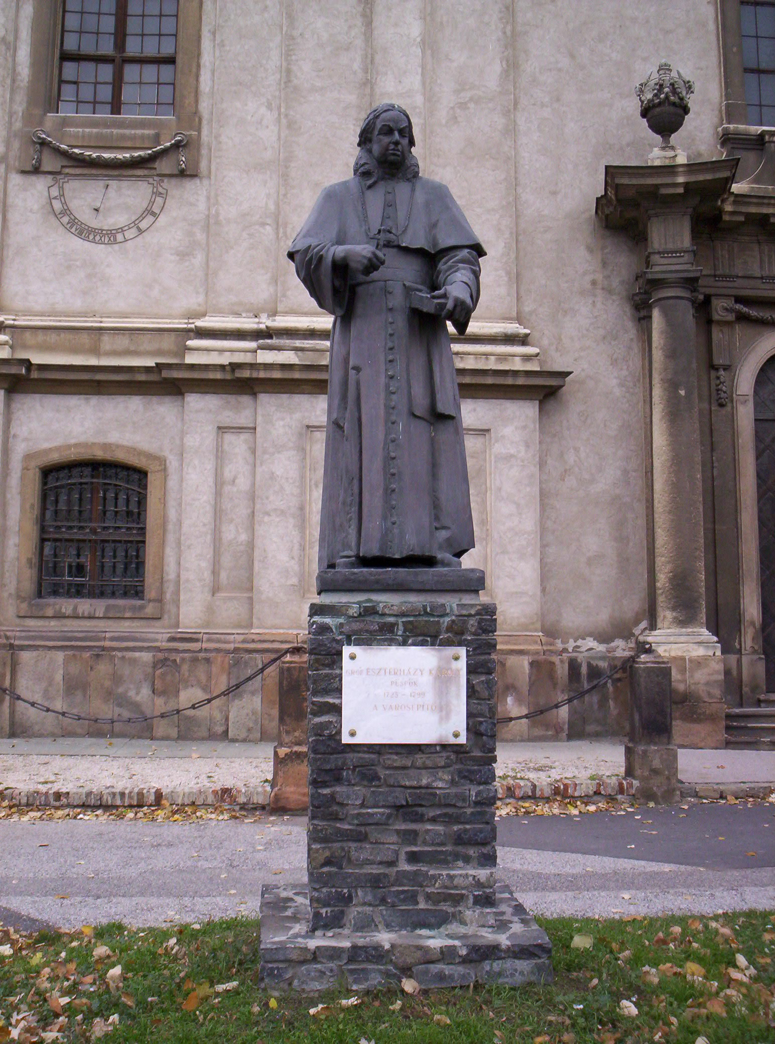 Statue of Károly Esterházy, bishop of Eger, town builder landlord of Pápa, at the Main Square in Pápa, Hungary. Art by László Marton, inaugurated at 4 May 2000